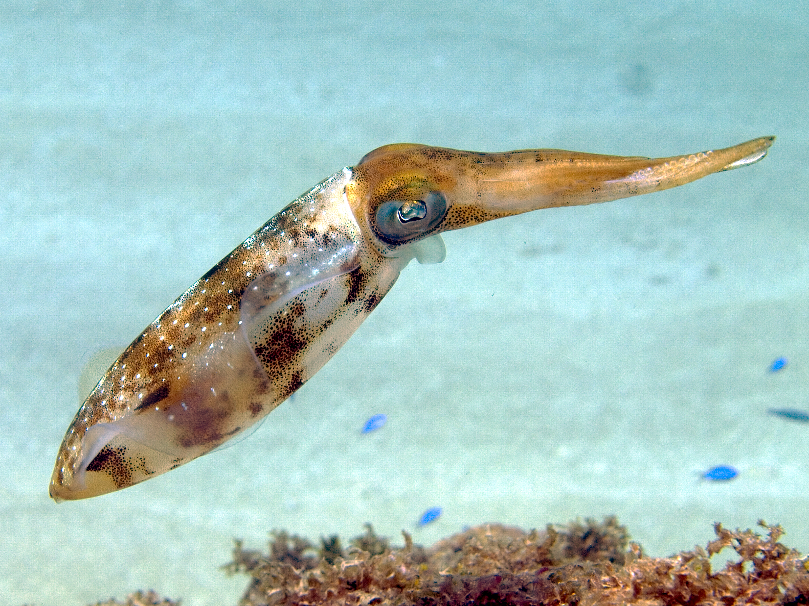 Sepioteuthis sepioidea (Caribbean Reef Squid). La Fague, Cap-Haitien, Haiti. (Whitebalance correction: Erik Bjers)